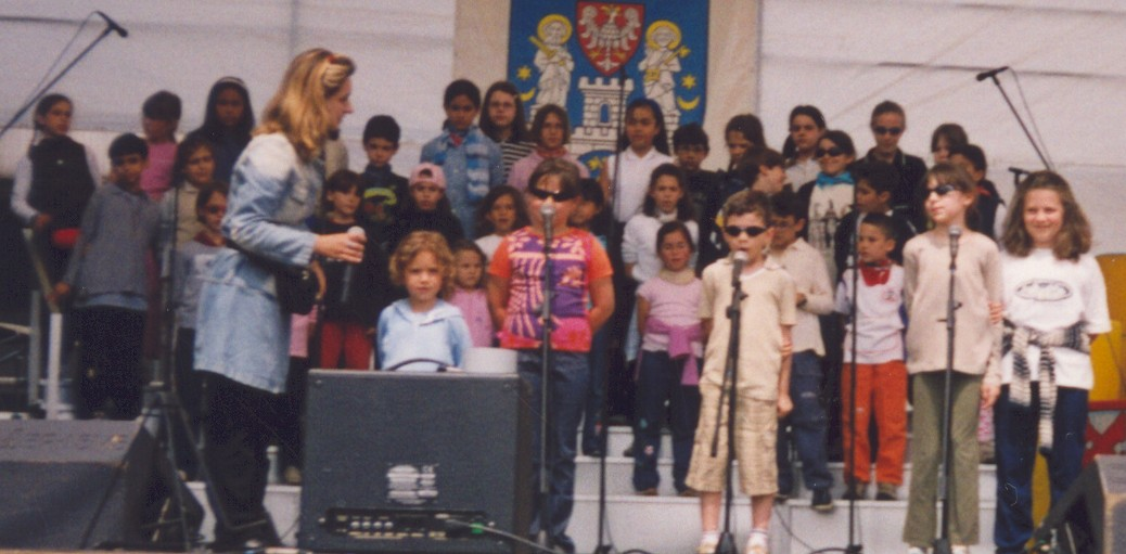 Piccolo Coro Mariele Ventre dell'Antoniano - trials before the concert in Poznań (Poland), late June, 2001. The picture was taken by myself !